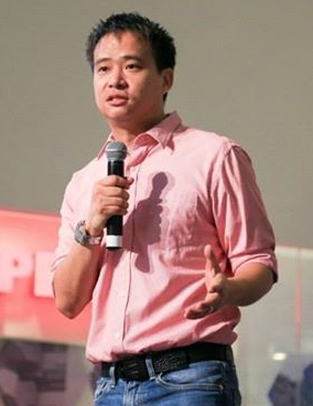 Joel Villanueva at the TESDA-ATINO Showcase Event at the Ayala Mall, The District Northpoint in Talisay, Negros Occidental.